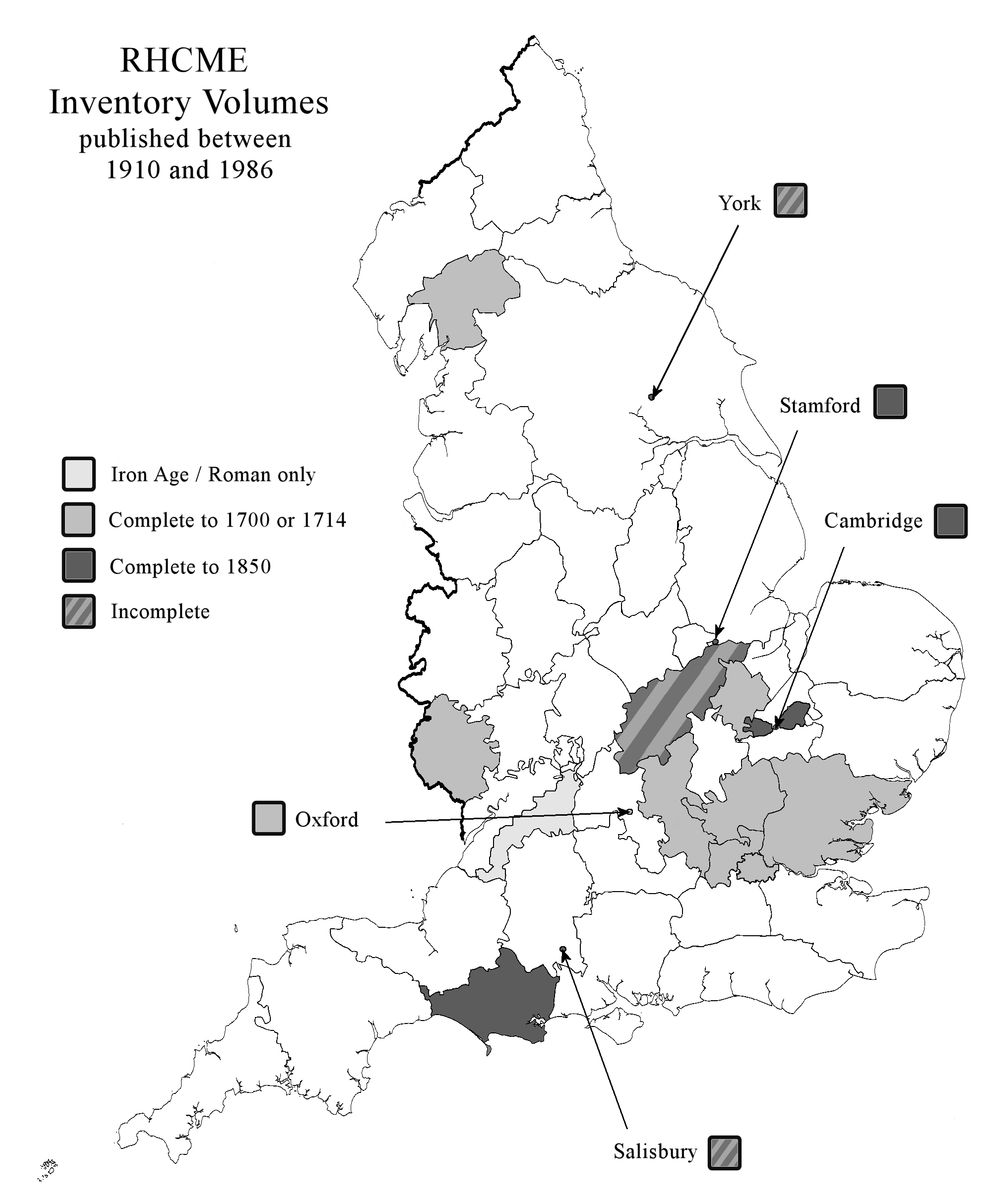 Map showing extent of county inventories published by the Royal Commission on Historical Monuments (England) between 1910 and 1986.